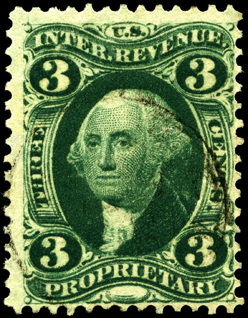 United States 3c revenue (proprietary articles) stamp of 1862